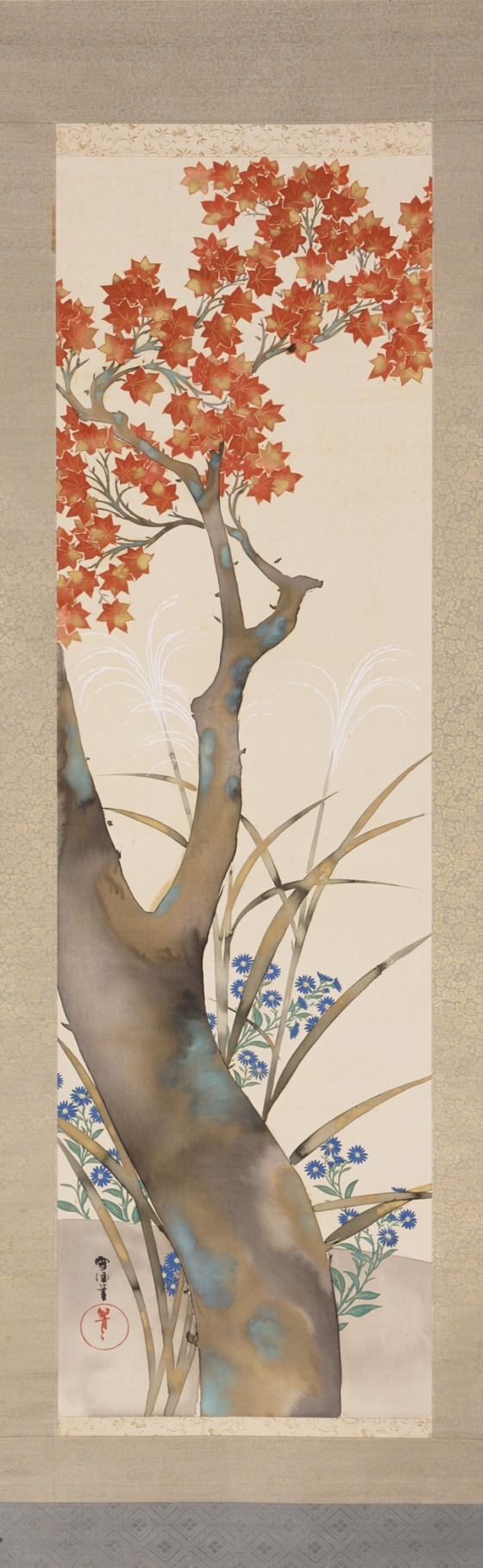 Kamisaka Sekka, Autumn Maple, late 19th century